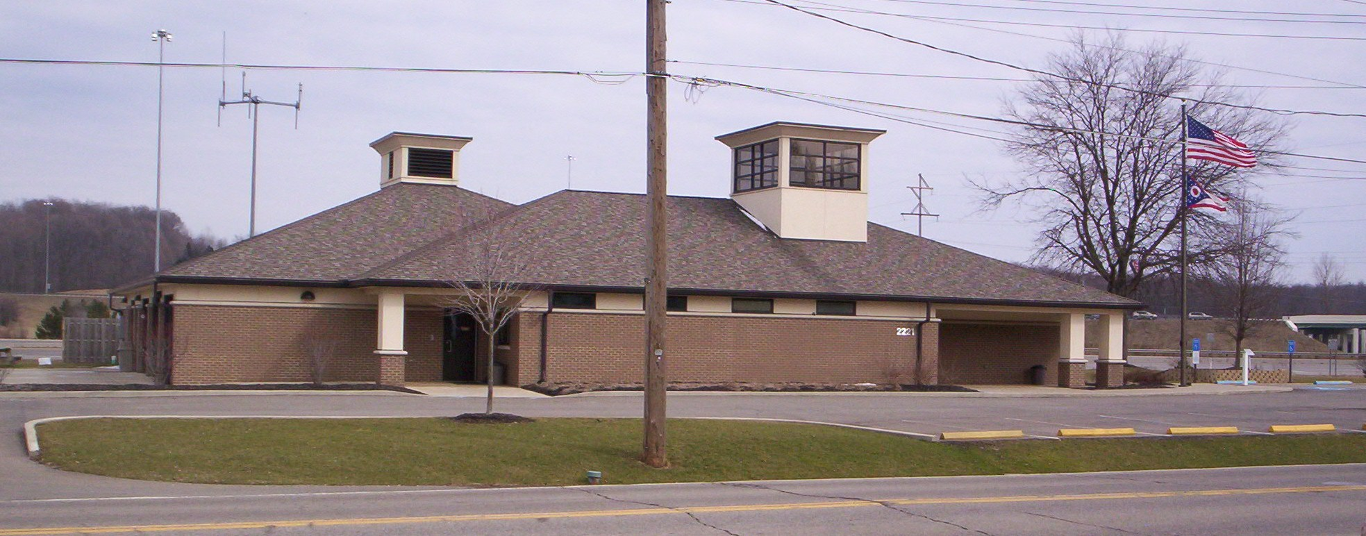 A view of the Ohio State Highway Patrol Mansfield Patrol Post in Mansfield, Ohio. This highway patrol post was built in 2004.